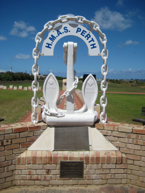 The anchor of the HMAS Perth at Rockingham Naval Memorial Park.